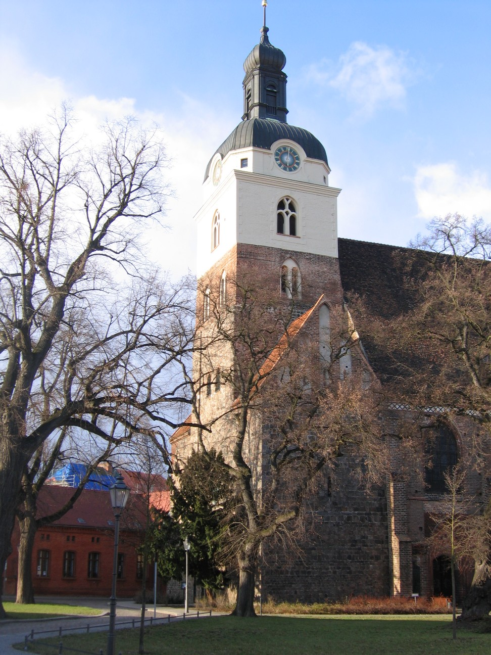 Description: church of St. Gotthard in Brandenburg an der Havel Source: Own work Date: 04 April 2006 Author: User:Martinum